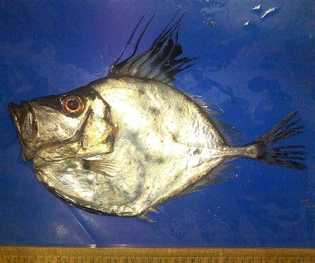 18 cm long Zenopsis conchifer collected in Arabian sea, India.